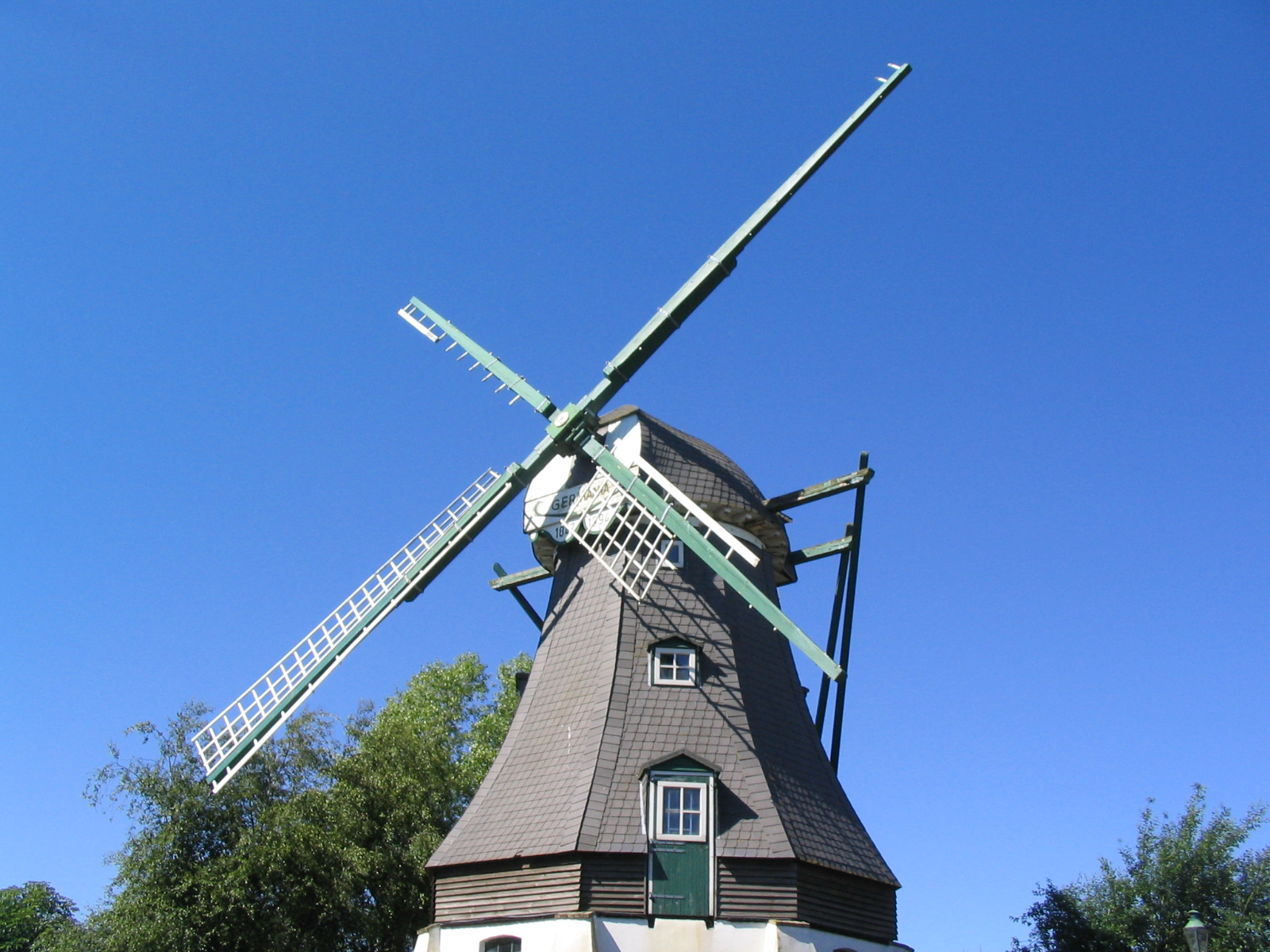 Windmill "Germania" in Wöhrden, Dithmarschen. Build in 1847, working until 1955 by now a private house.